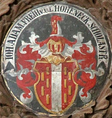 Wappenschild des Stiftsherrn Johan Adam von Hoheneck (auch Domdekan in Worms, + 1731, St. Burkhard, Würzburg